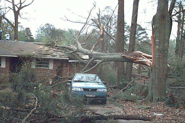 An example of F0 tornado damage. (Damage Scale)